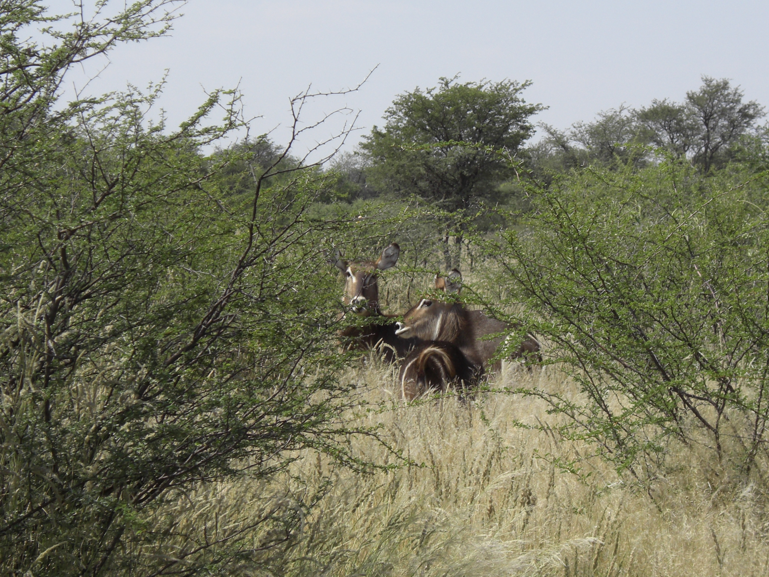 Couple of Waterbucks, Namibia